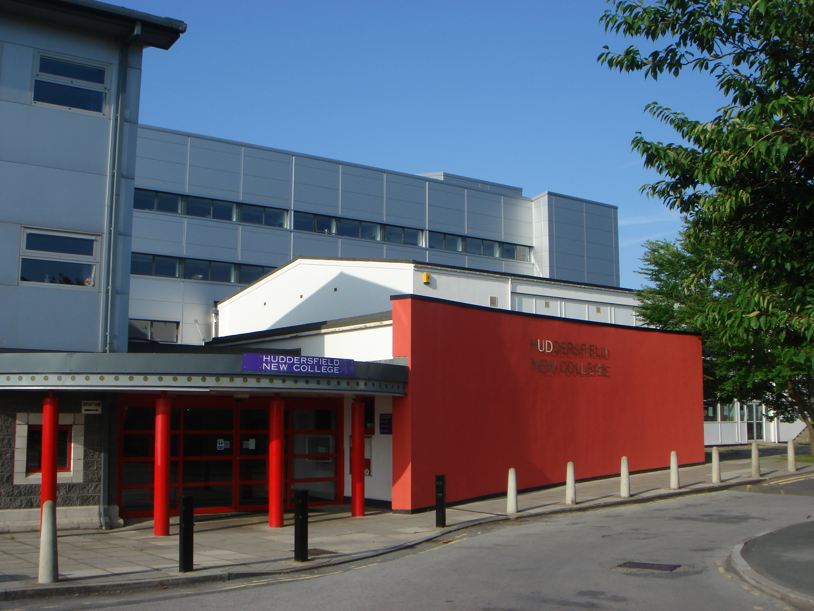 Huddersfield New College, showing the entrance and English rooms. For more information, see Wikipedia article Huddersfield New College. Copyright Copyright 2006 - Simon Brass